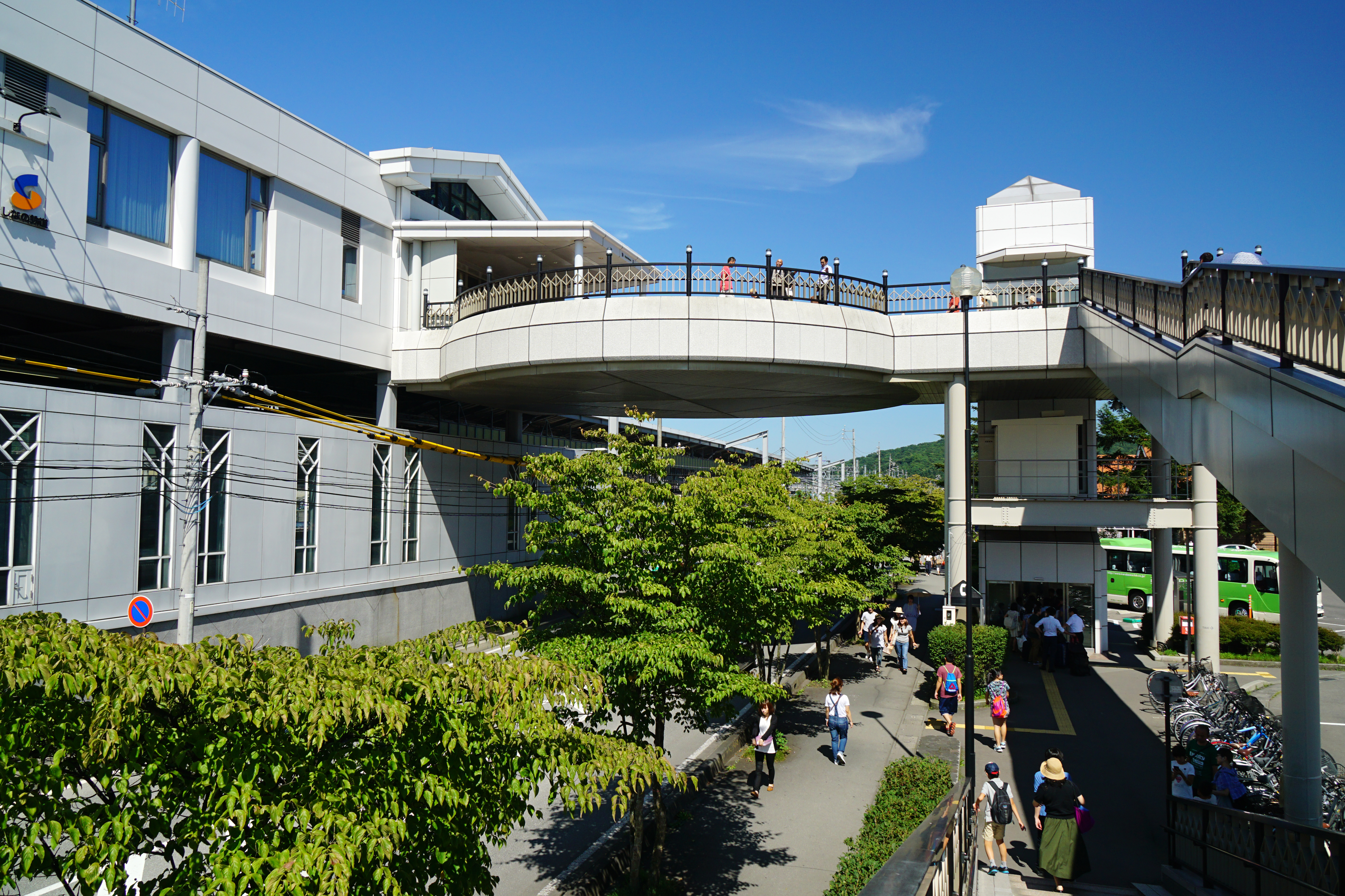 Karuizawa_Station in Karuizawa, Nagano prefecture, Japan.